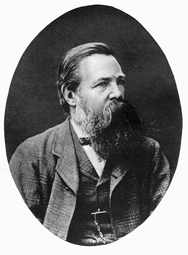 Friedrich Engels, 1877 in Brighton